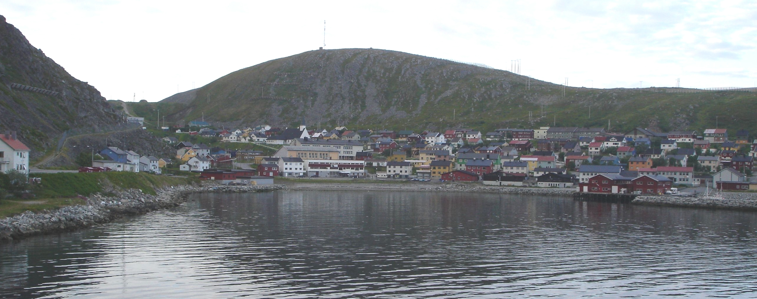 View on Kjøllefjord